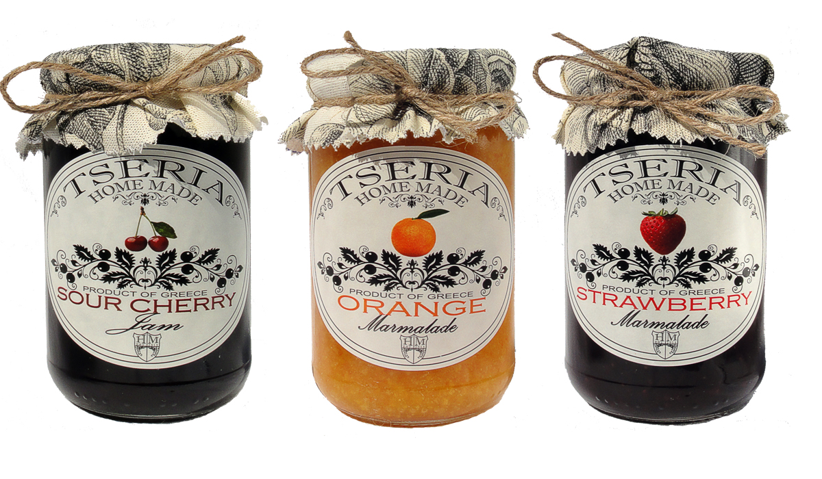 Our Marmalades